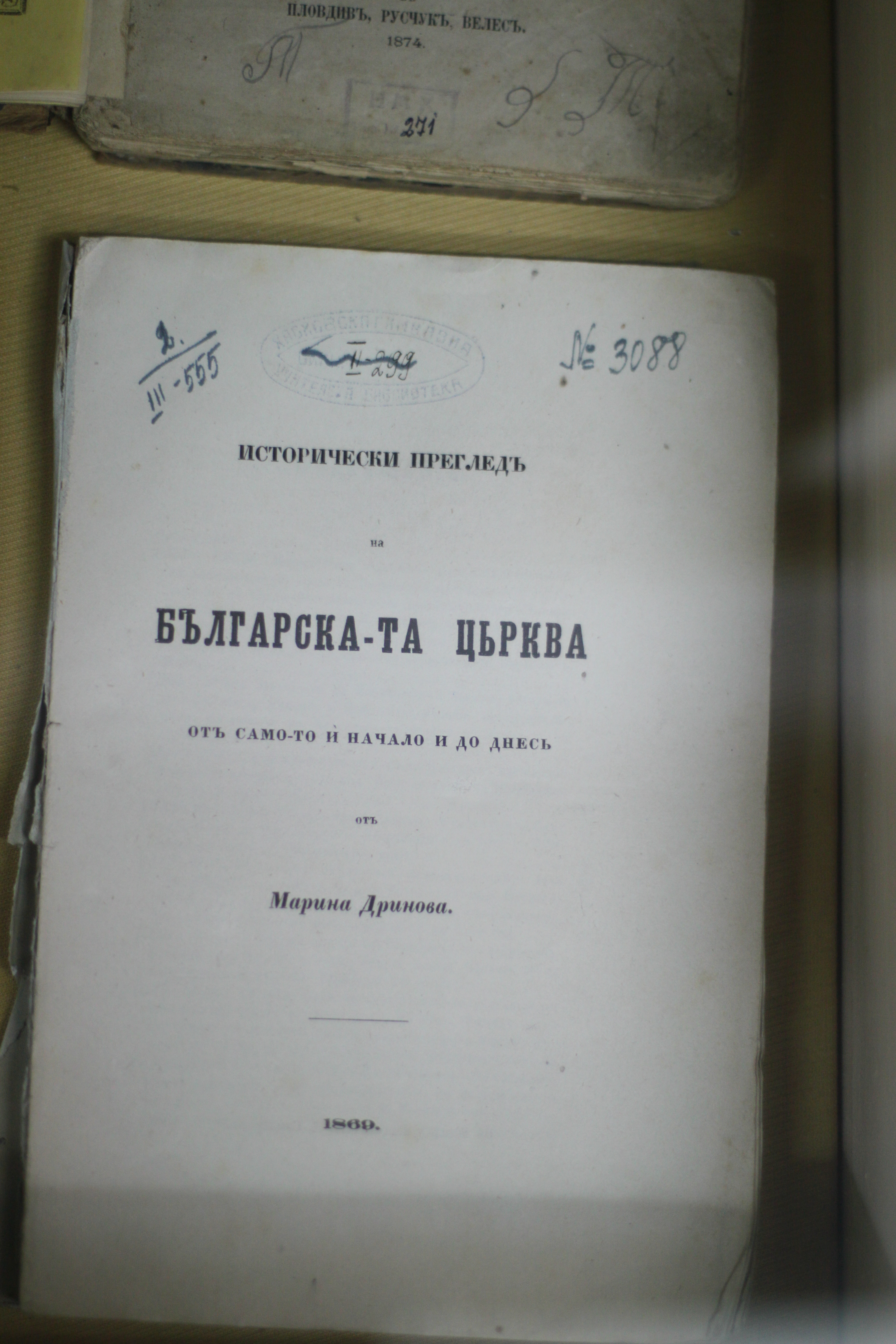 Haskovo Historic Museum, Haskovo, Bulgaria